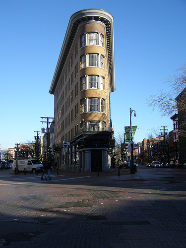 The Hotel Europe in Gastown, Vancouver B.C. Taken by Victoria Potter [victoriapotter]. Found on the photo share community Flickr.